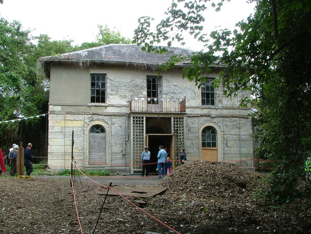 Castle Green House, Cardigan Castle Picture taken during the BBC Restoration experience.